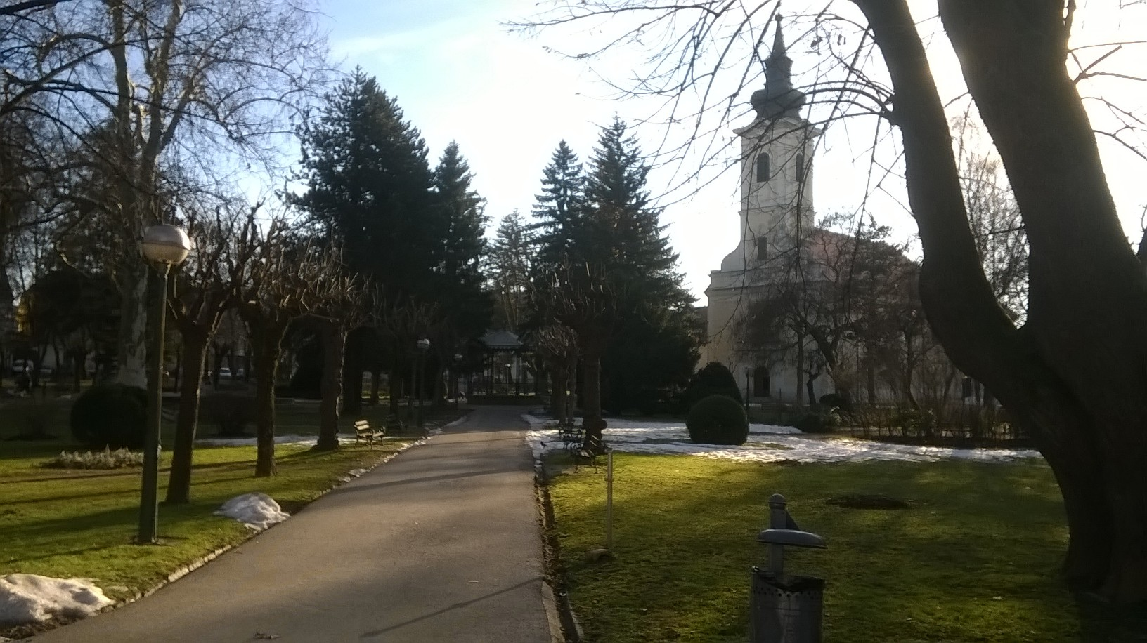 Petrinja park, Croatia